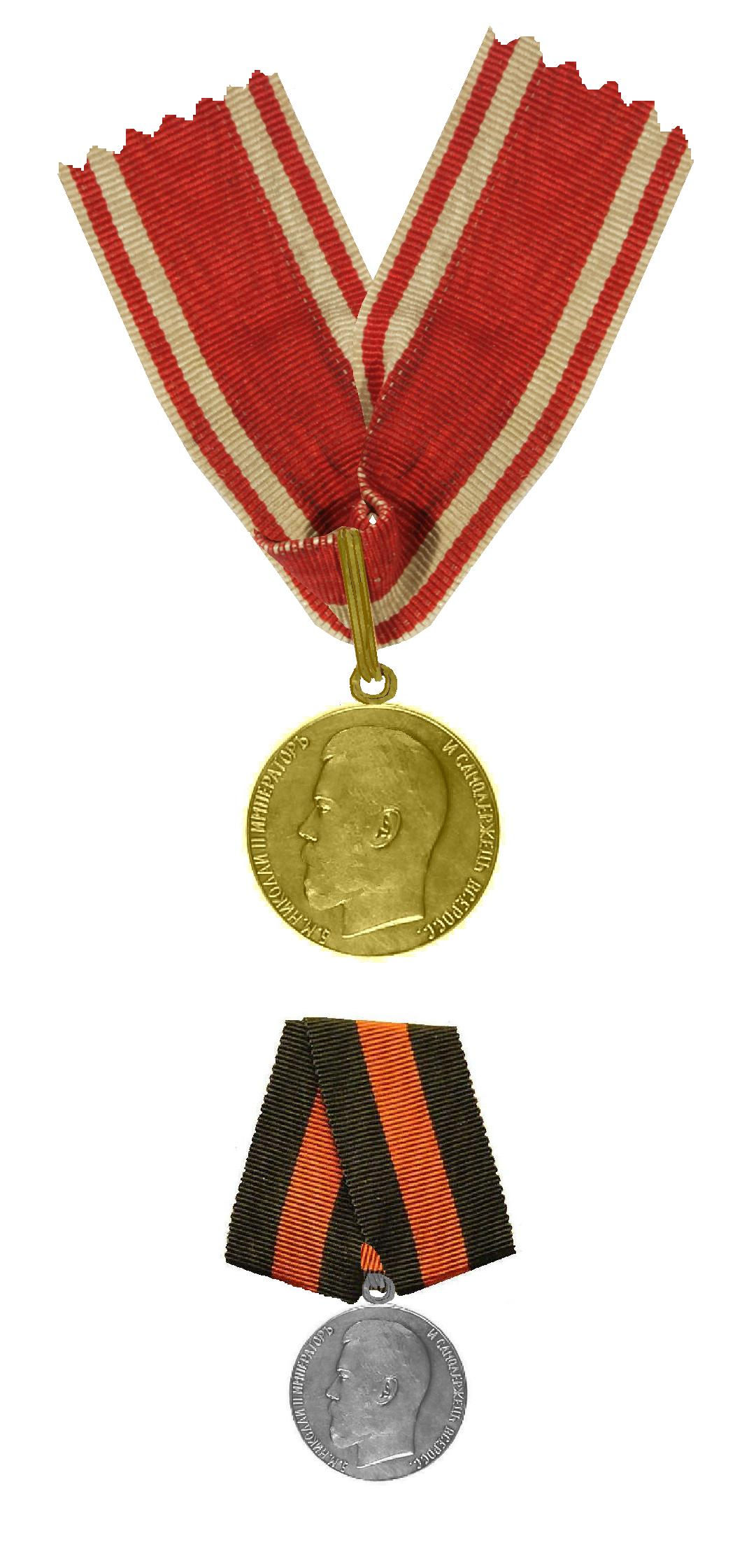 Medal for Industry Imperial Russia Médaille Pour zèle - 1894